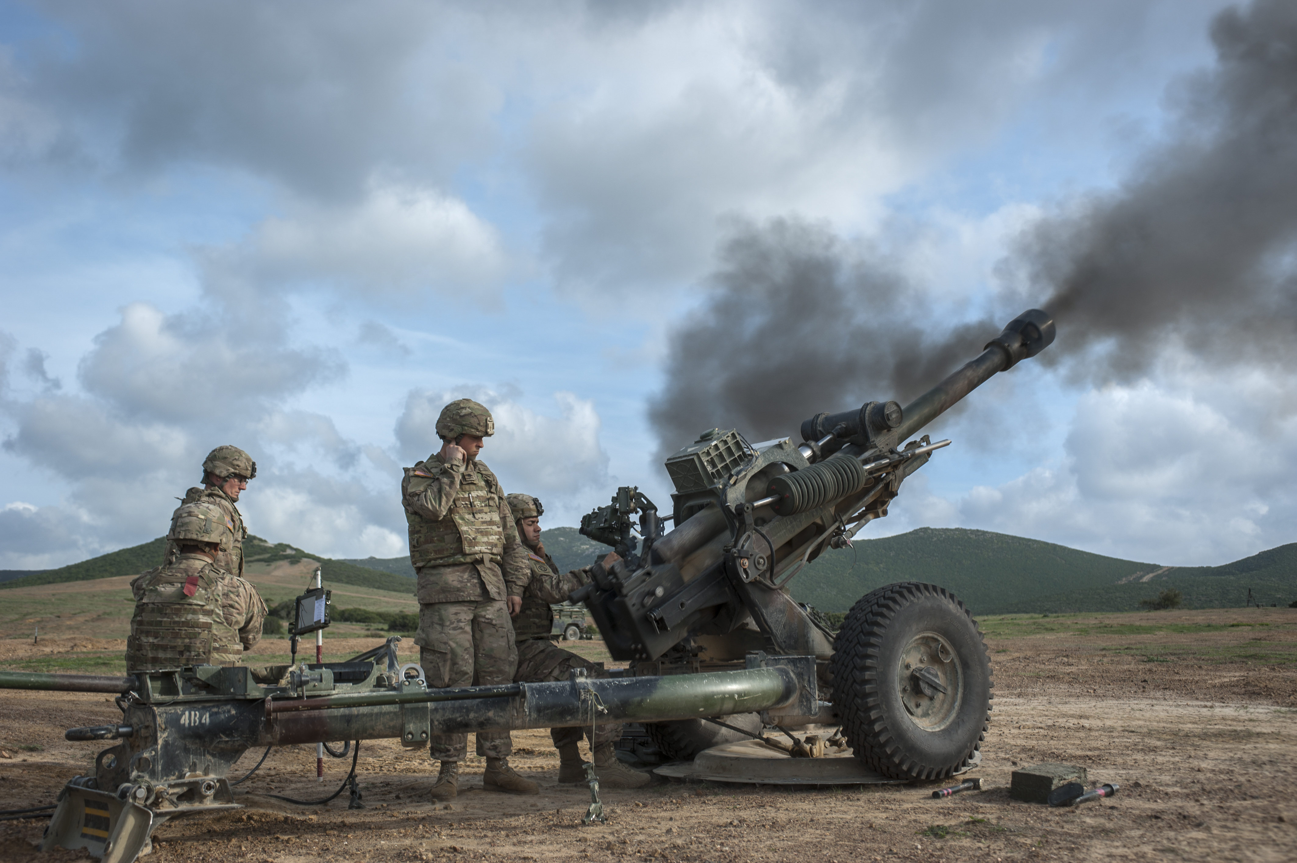 US Artillery Live Fire Exercise in Capo Teulada, Sardinia, Italy on November 02, 2015 during NATO exercise Trident Juncture 15. NATO Local PAO Capo Teulada Esercitazione Trident Juncture 2015 - Attività a fuoco artiglieria USA NATO photo by Davide Passone